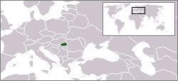 Map showing the location of the fictional country Latveria. Image created by Fritz Saalfeld, based on the country locator maps by Vardion.